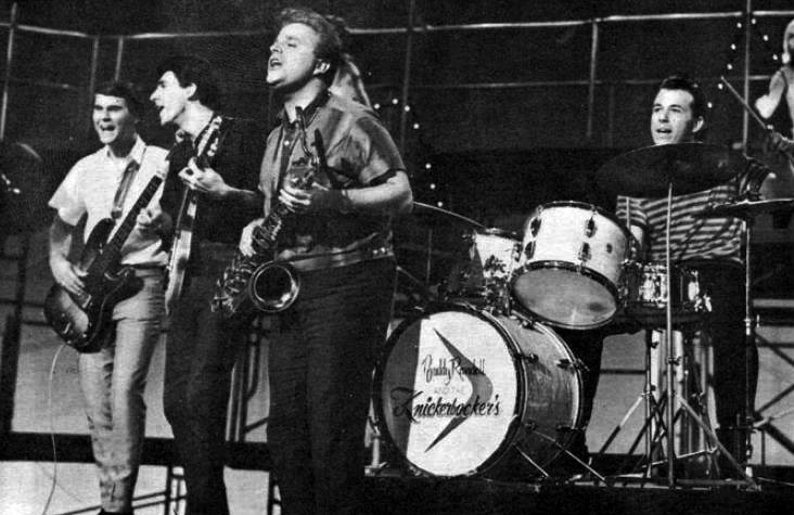 Photo of the music group The Knickerbockers. The paper was produced for KRLA Radio, Los Angeles in the mid 1960s.